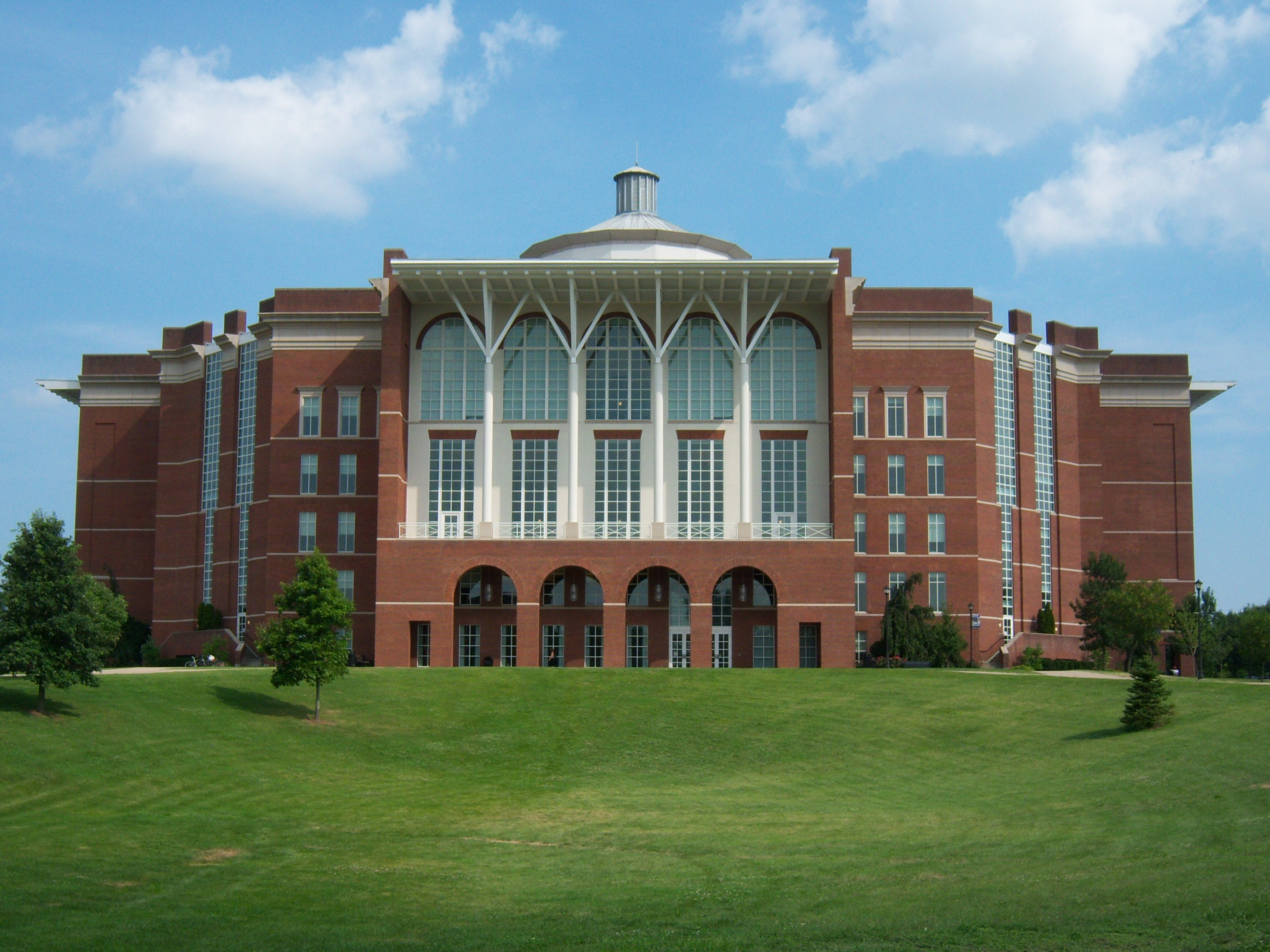 Side view of the William T. Young Library, located on the campus of the University of Kentucky.